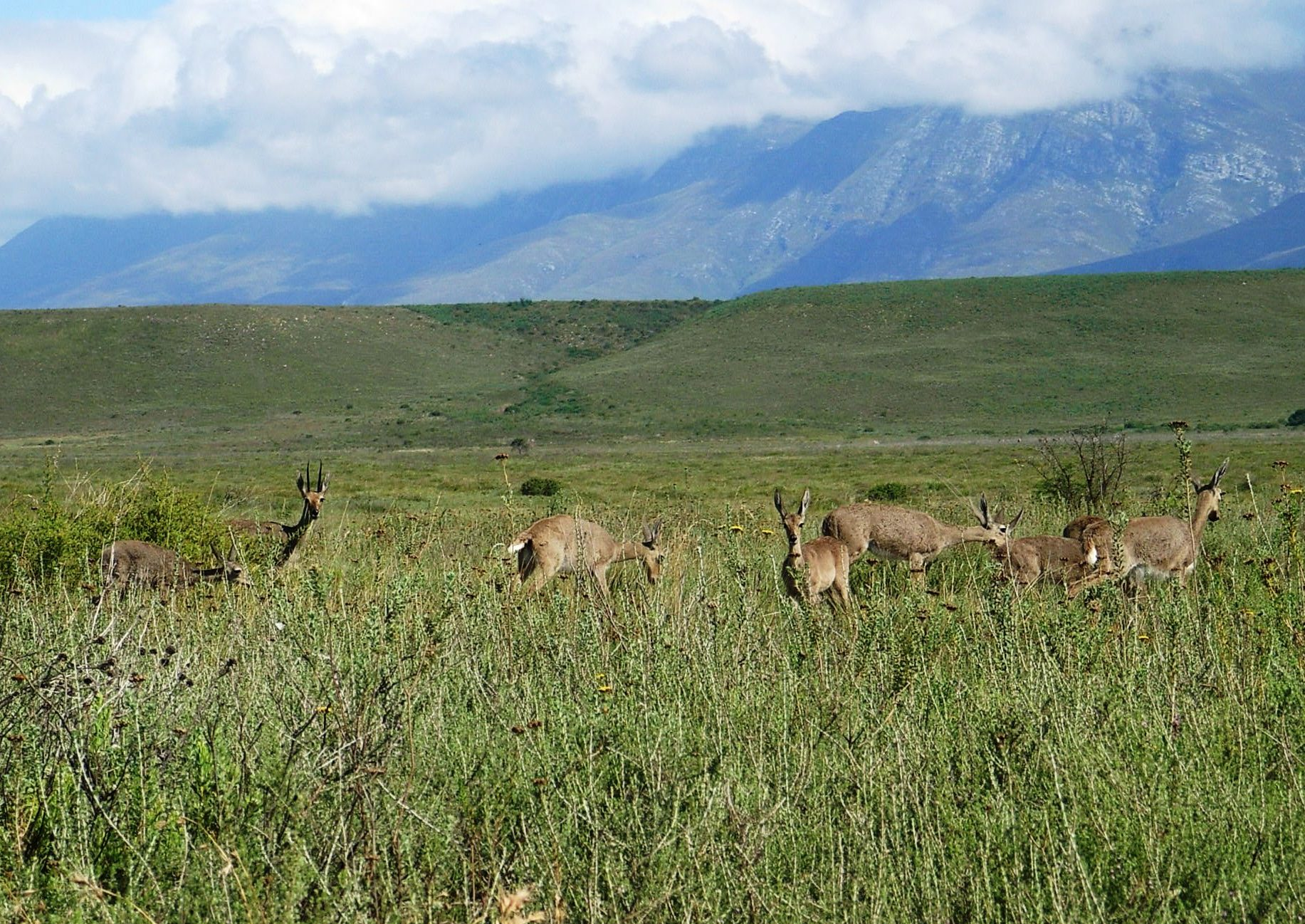 Grey Rhebok (Pelea capreolus) Bontebok National Park, South Africa